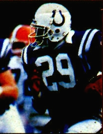 Indianapolis Colts' running back Eric Dickerson rushing the ball during an away game against the Cleveland Browns.